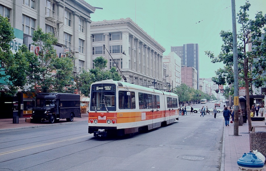 During the first San Francisco Historic Trolley Festival, Muni LRV (light rail vehicle) No. 1213, a 1977 Boeing LRV (ex-1221), is outbound on Market Street at Powell Street (going away from the camera). Its rollsign is fittingly showing "Castro Street Station" as its destination, which was in the sign already, in reference to the Muni Metro subway station of the same name but applied well to the outer terminus of the Trolley Festival route, at 17th & Castro – located across the street from the subway station's entrance.